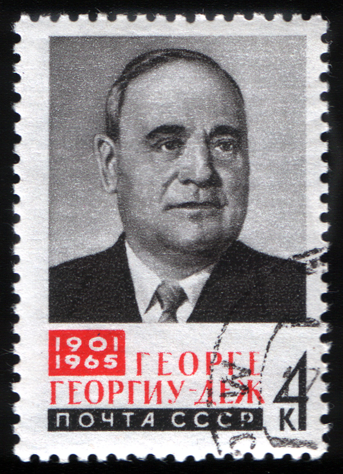 USSR stamp, G. Gheorghiu-Dej, 1965, 4 k.